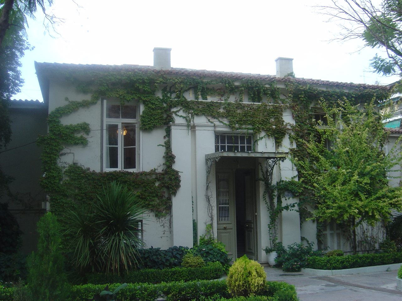 Sir Pulteney Malcolm mansion in Athens, Greece